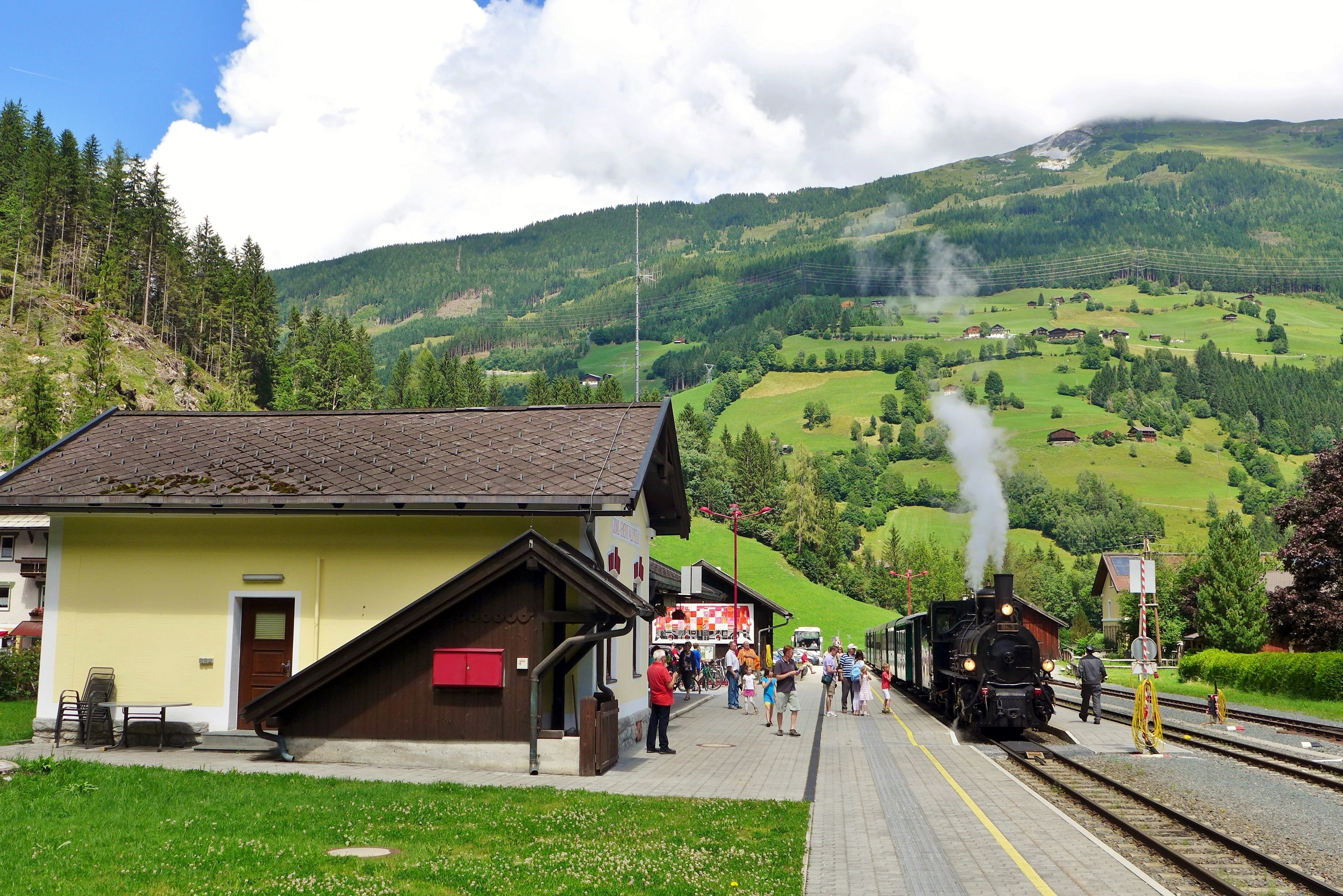 SLB steam locomotive no. Ds 03 (also known as Mh.3) following its arrival at Krimml railway station, Austria, with a Pinzgauer Lokalbahn steam nostalgia service from Zell am See to Krimml and return.